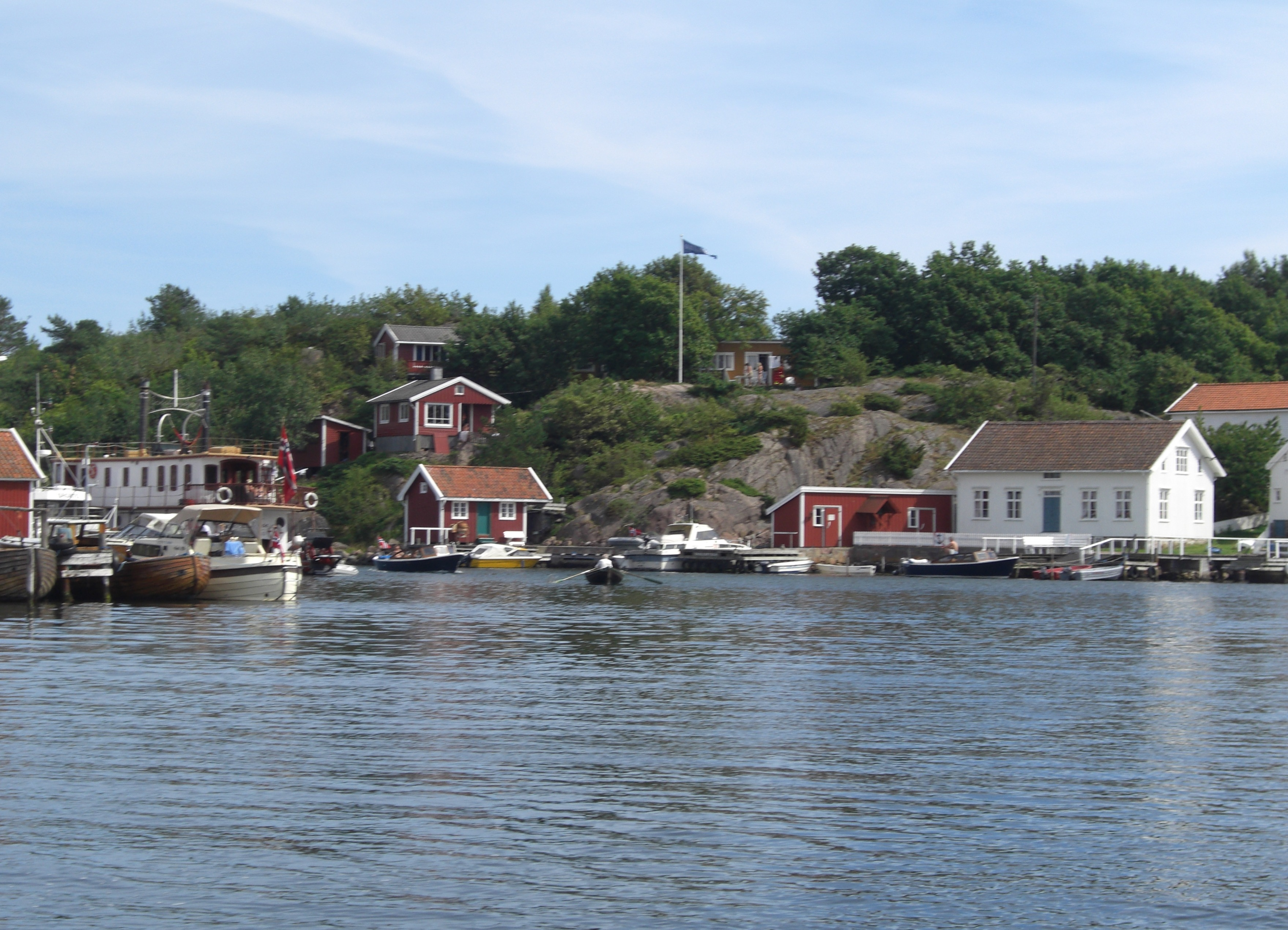 Hesnesøy